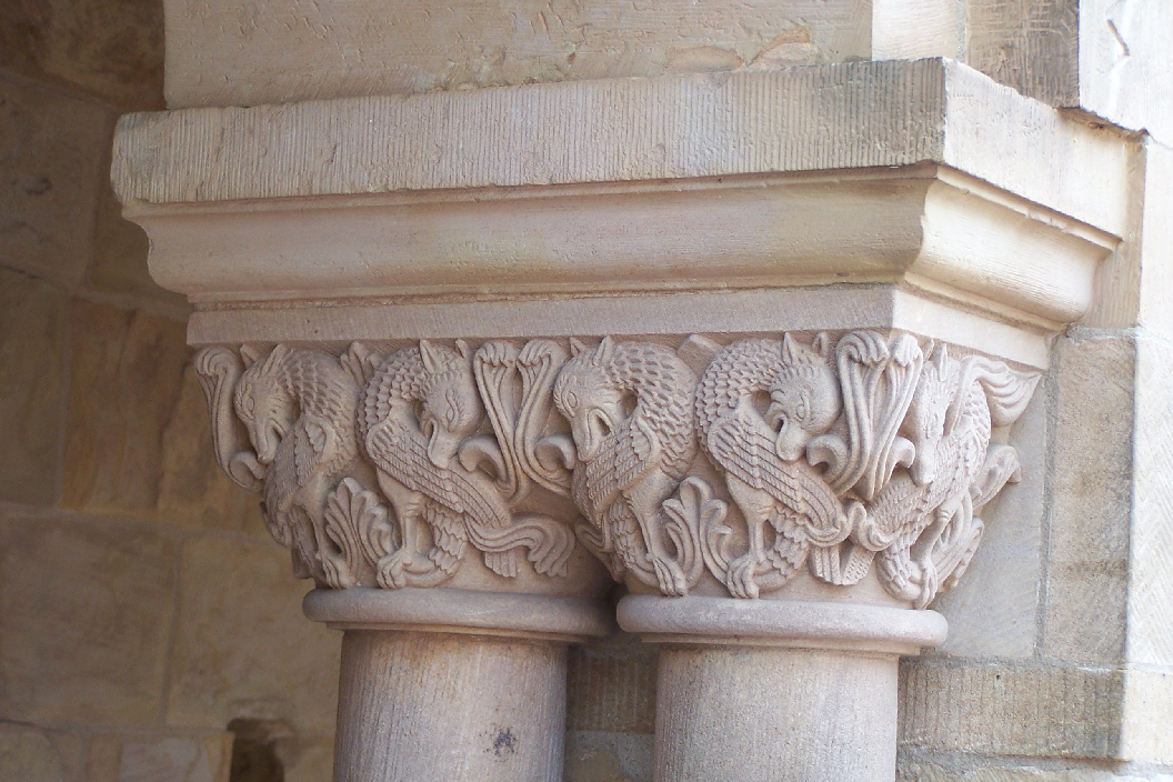 Wartburg, capitals at the palas.